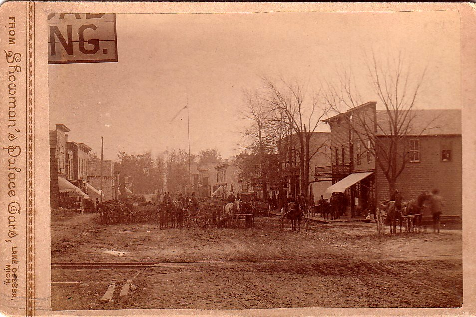 Lake Odessa in 1888